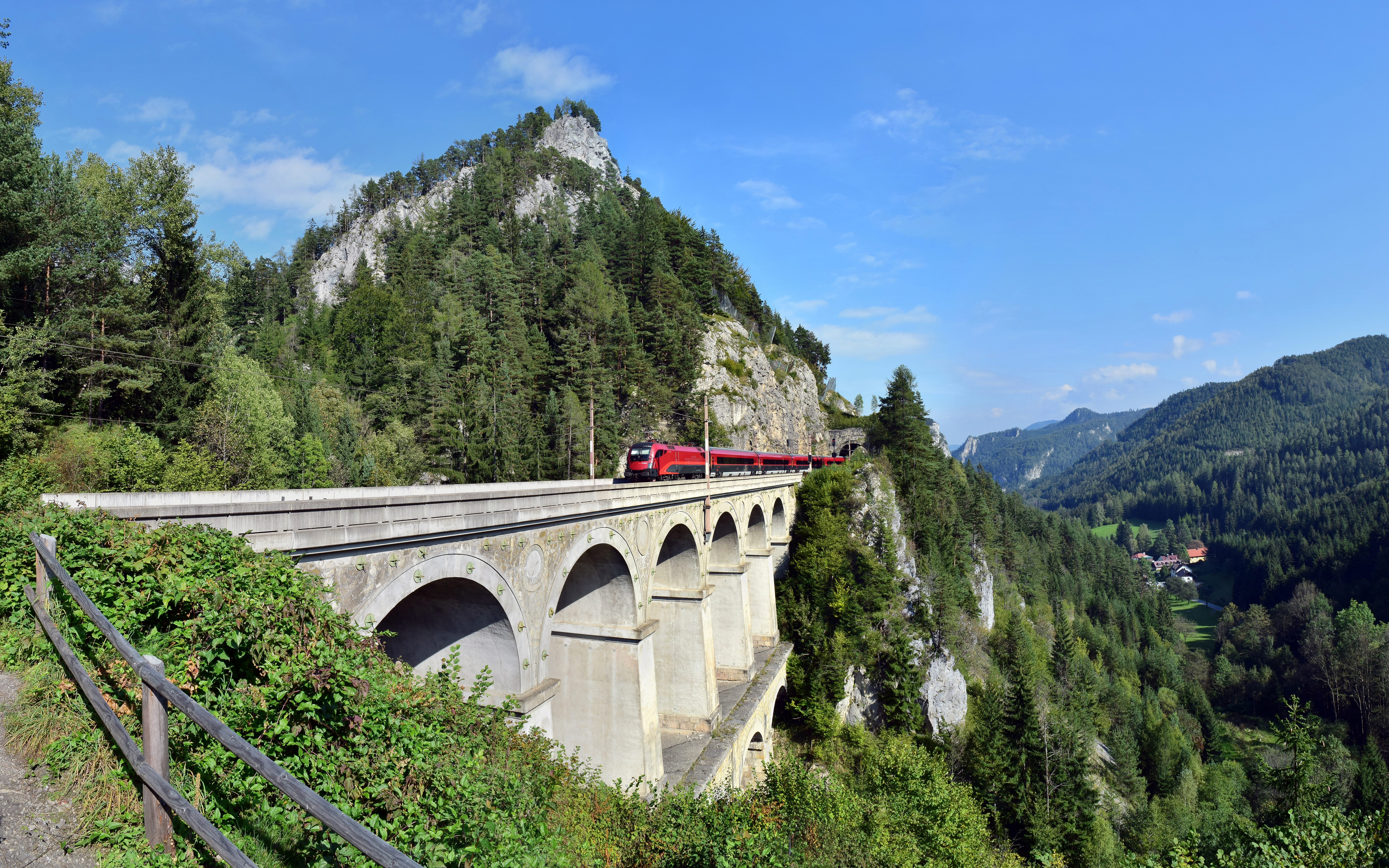 Krauselklause Viadukt of Semmering railway with a Railjet, in the background the Spießwand (915 m) and Krausel tunnel Dieses Bild zeigt das in Österreich unter der Nummer 24772 denkmalgeschützte Objekt (Weitere Bilder, commons, de)